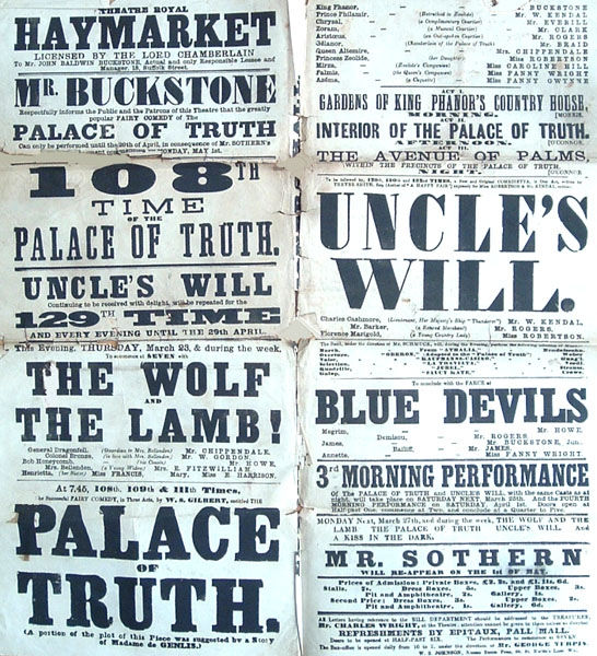 Scan of theatre poster from the Haymarket Theatre dated 23 March 1871. The poster advertises the 108th performance of The Palace of Truth by W. S. Gilbert, among other plays. Scan provided by Simon Moss, who displays a thumbnail copy of the image at his website, "Gilbert & Sullivan: a selling exhibition of memorabilia". This 1871 poster is in the public domain.